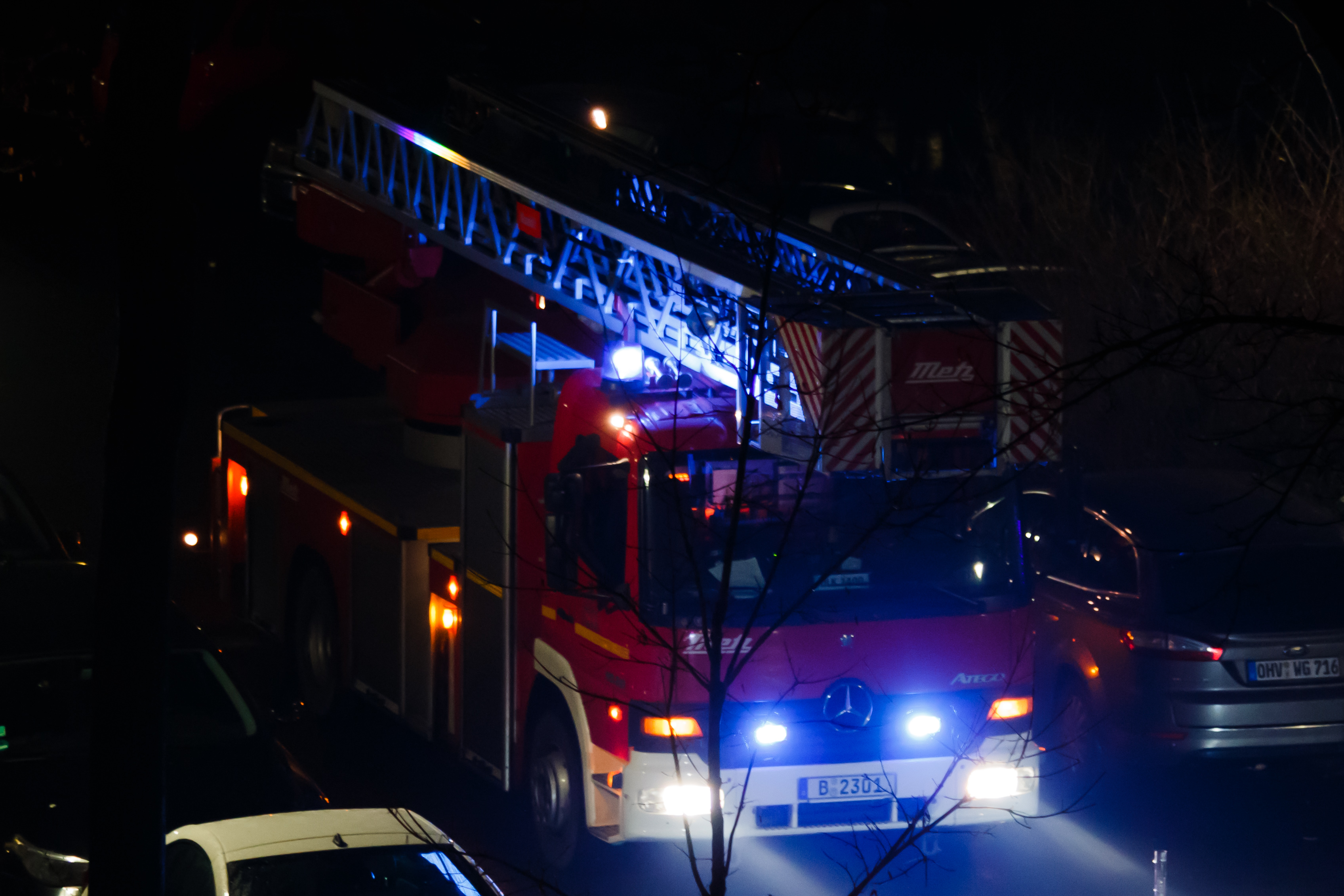 DLK 23/12 der Feuerwache Moabit (DLK 1400) in der Nassauischen Straße in Wilmersdorf in der Silvesternacht 2014